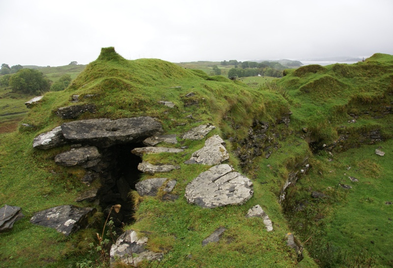 Tirefour Broch, Lismore, Scotland - gallery